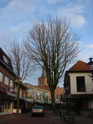 Barneveld centre